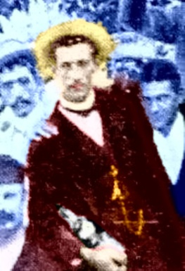 dfg